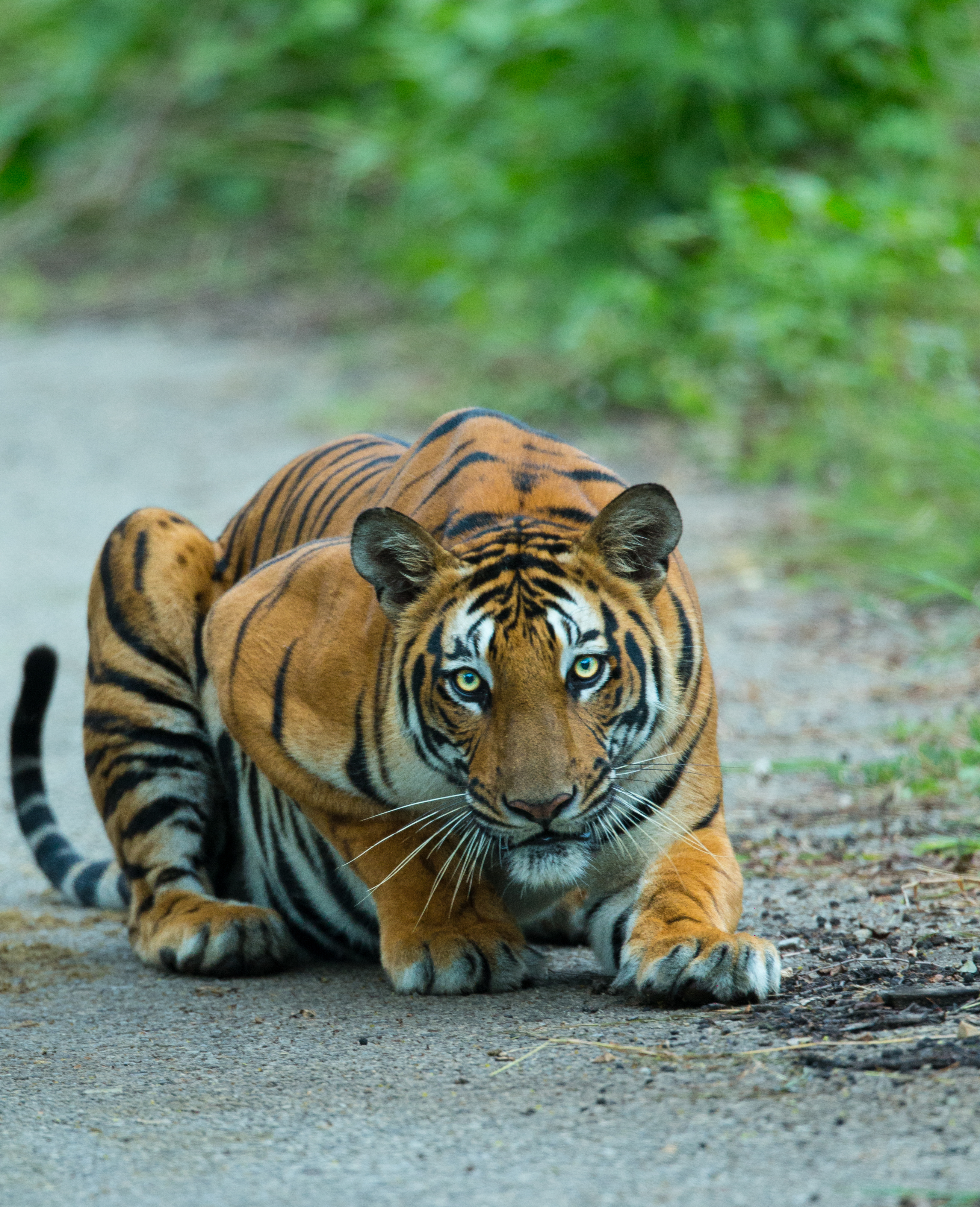 An intense look from a female Tigress at the Nagarahole Tiger Reserve, Karnataka, India